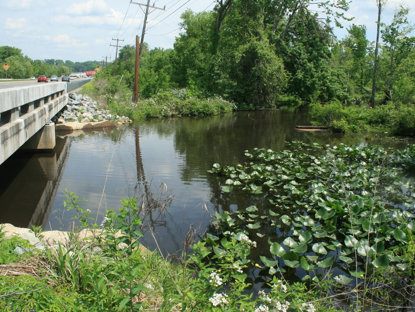 Mechanicsville bridge (Chickahominy river)